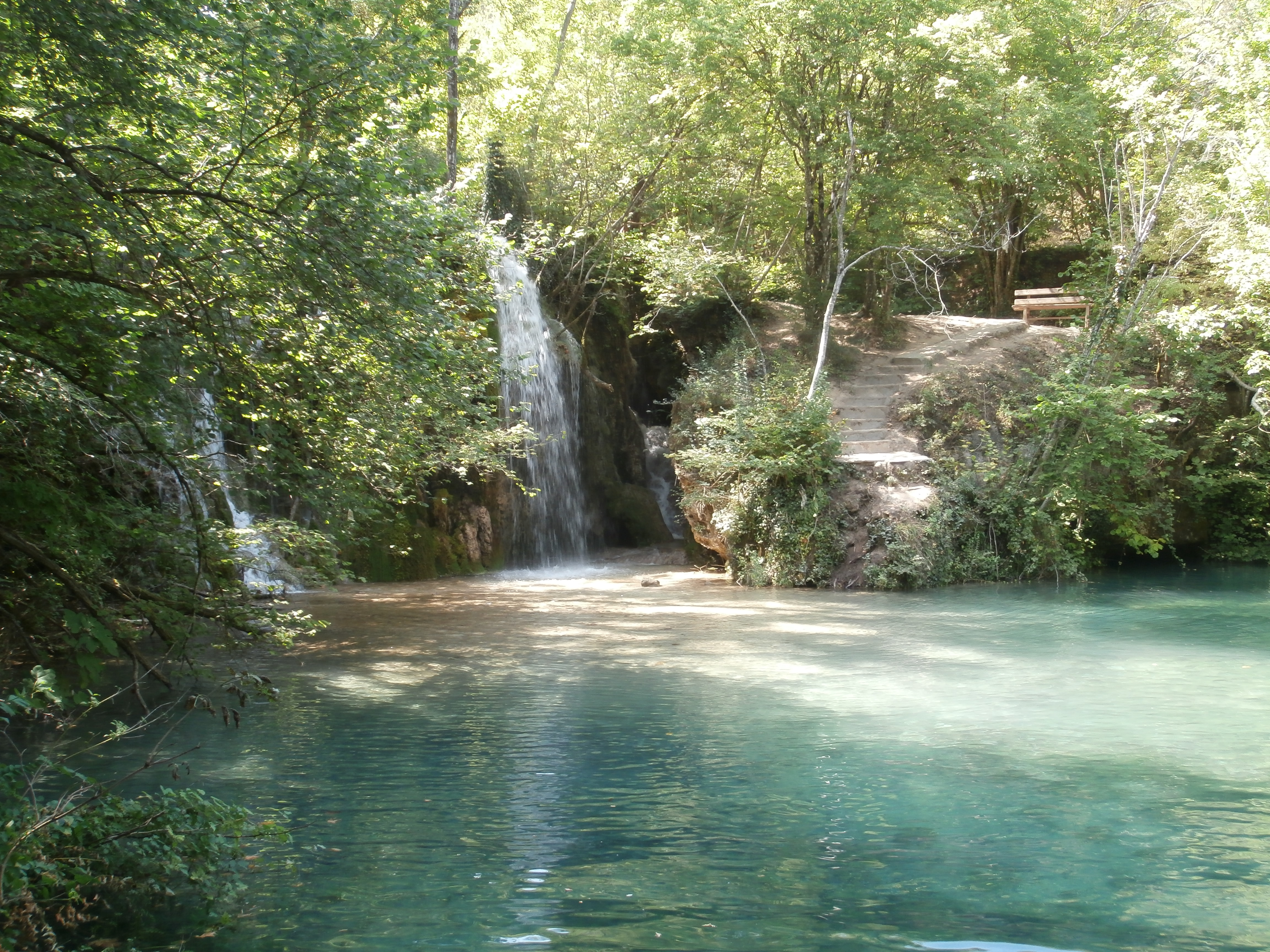 Skra waterfalls and the blue lake